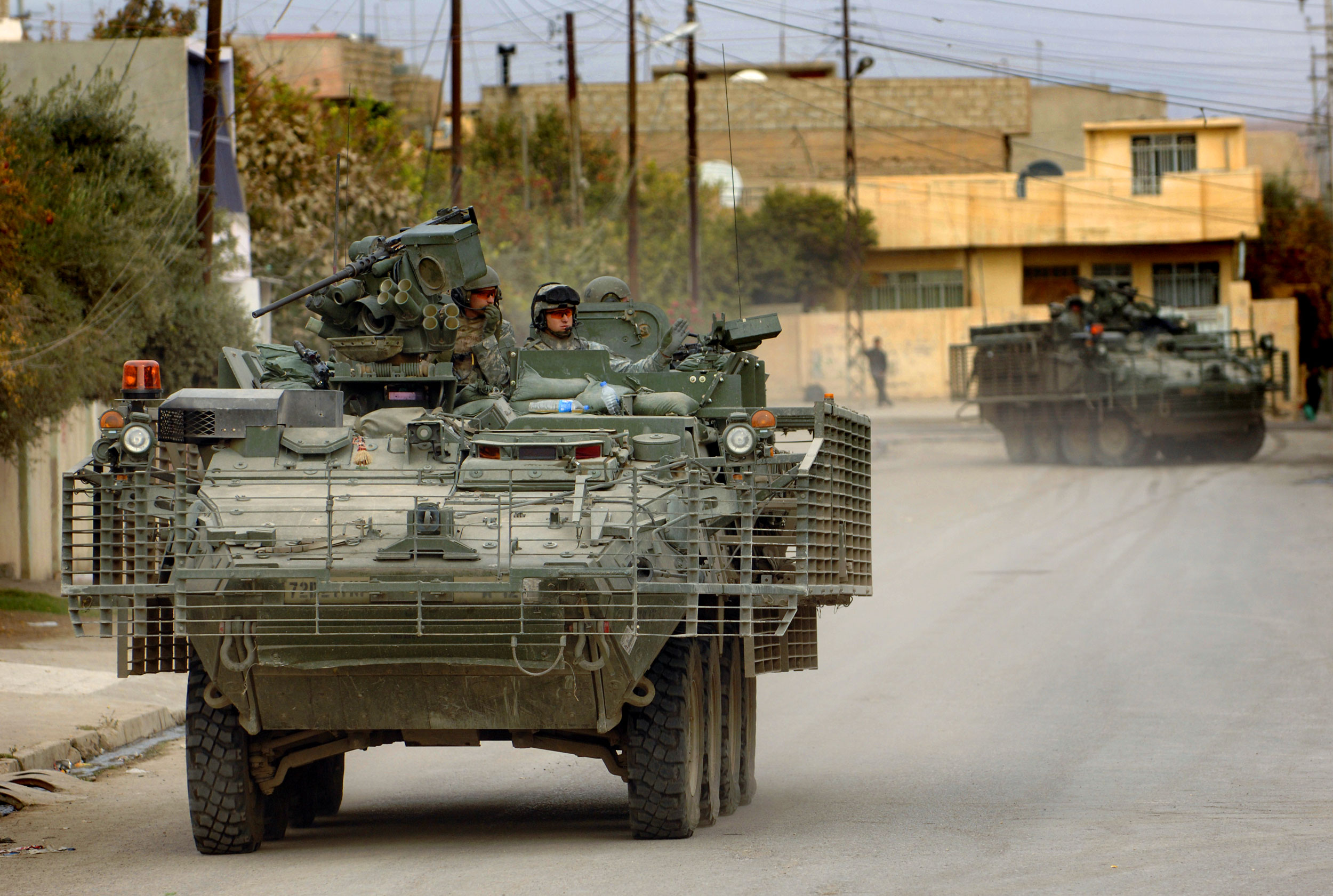 U.S. Army soldiers, assigned to the 172nd Stryker Brigade Combat Team, A Company, 2nd Battalion, 1st Infantry Regiment, 3rd Platoon, Fort Wainwright, Alaska, conduct a patrol in Mosul, Iraq, Nov. 20, 2005 in support of Operation Iraqi Freedom.